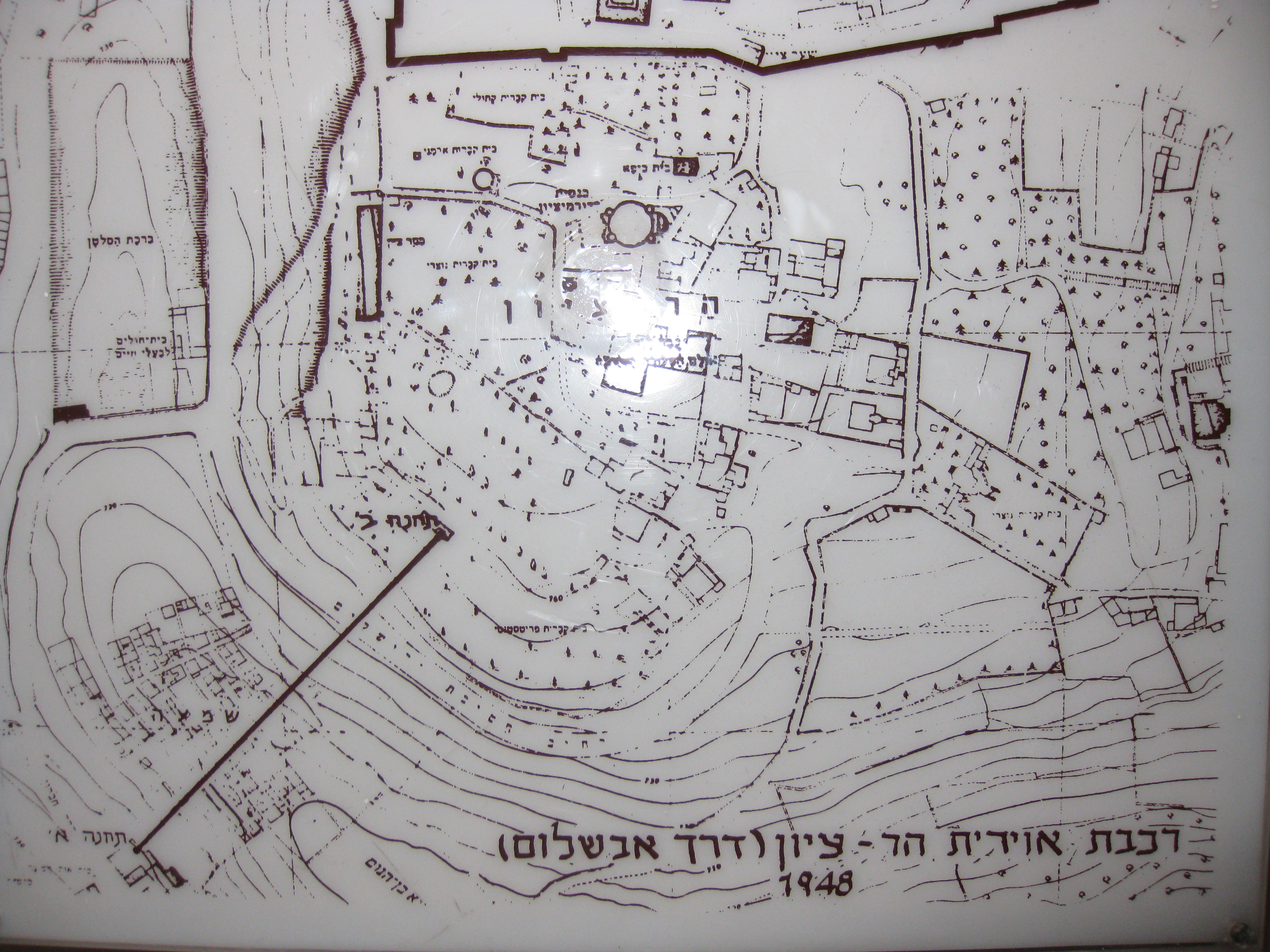 Map of the path of Mount Zion Cable Car